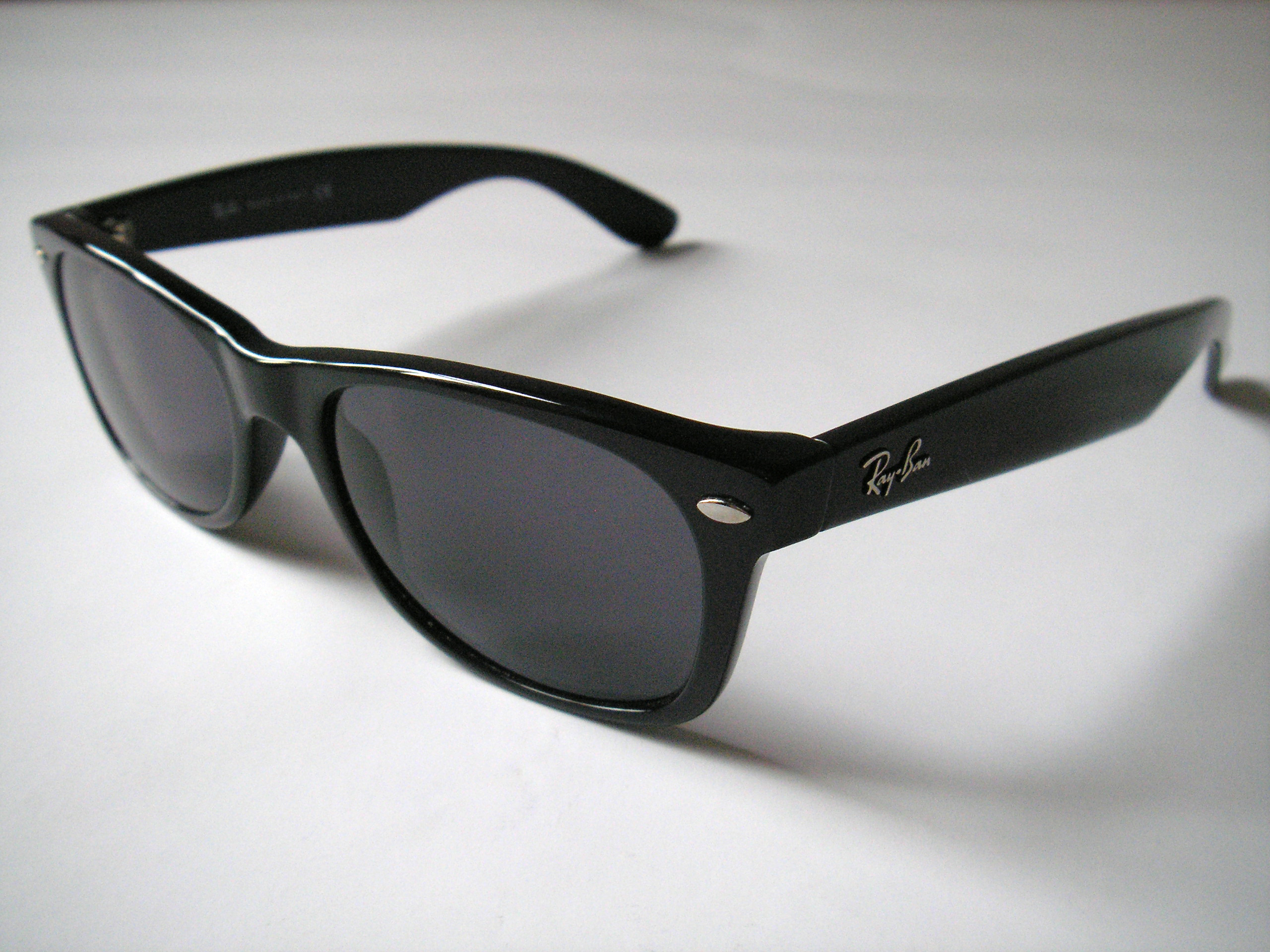 Ray Ban "New Wayfarer"